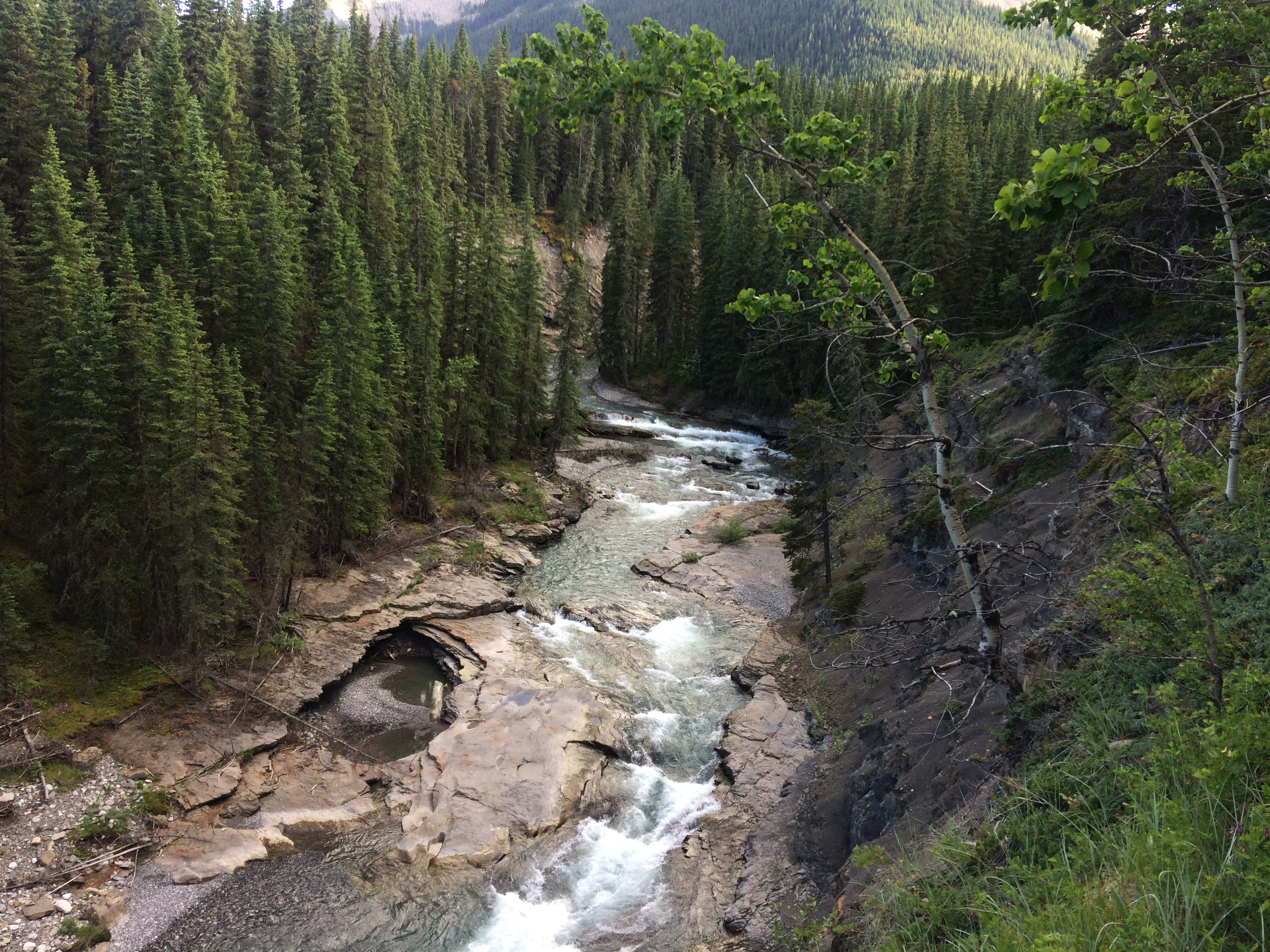 The mighty Sheep River as it flows through the Rocky Mountains of Alberta.